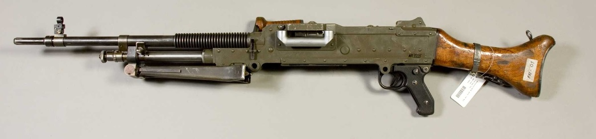 The Kulspruta 58B (Ksp 58B) machine gun, chambered in 7.62 mm NATO, is a Swedish version of the FN MAG. This particular machine gun was used in trials with the new 7.62 mm barrel. Photo from the Swedish Army Museum collections.